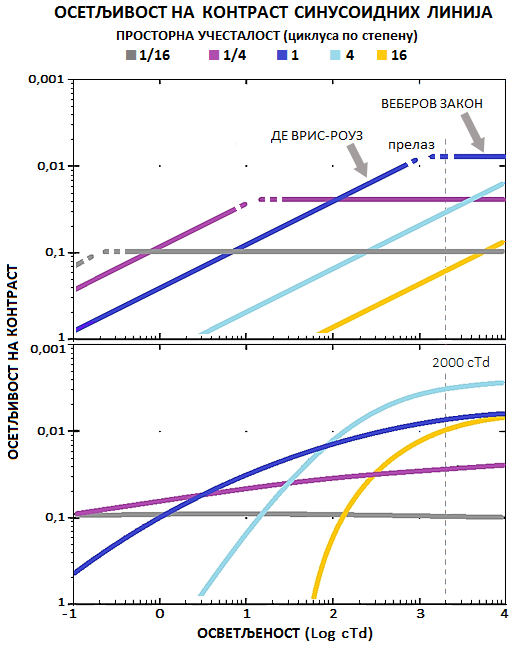 ОСЕТЉИВОСТ ШТАПИЋА НА КОНТРАСТ